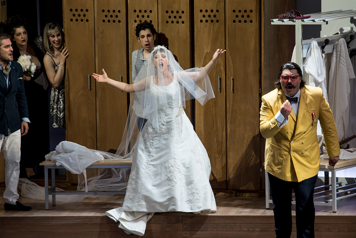 Mirandolina, Oper von Bohuslav Martinu, Teatro La Fenice, Venezia, Juni 2016